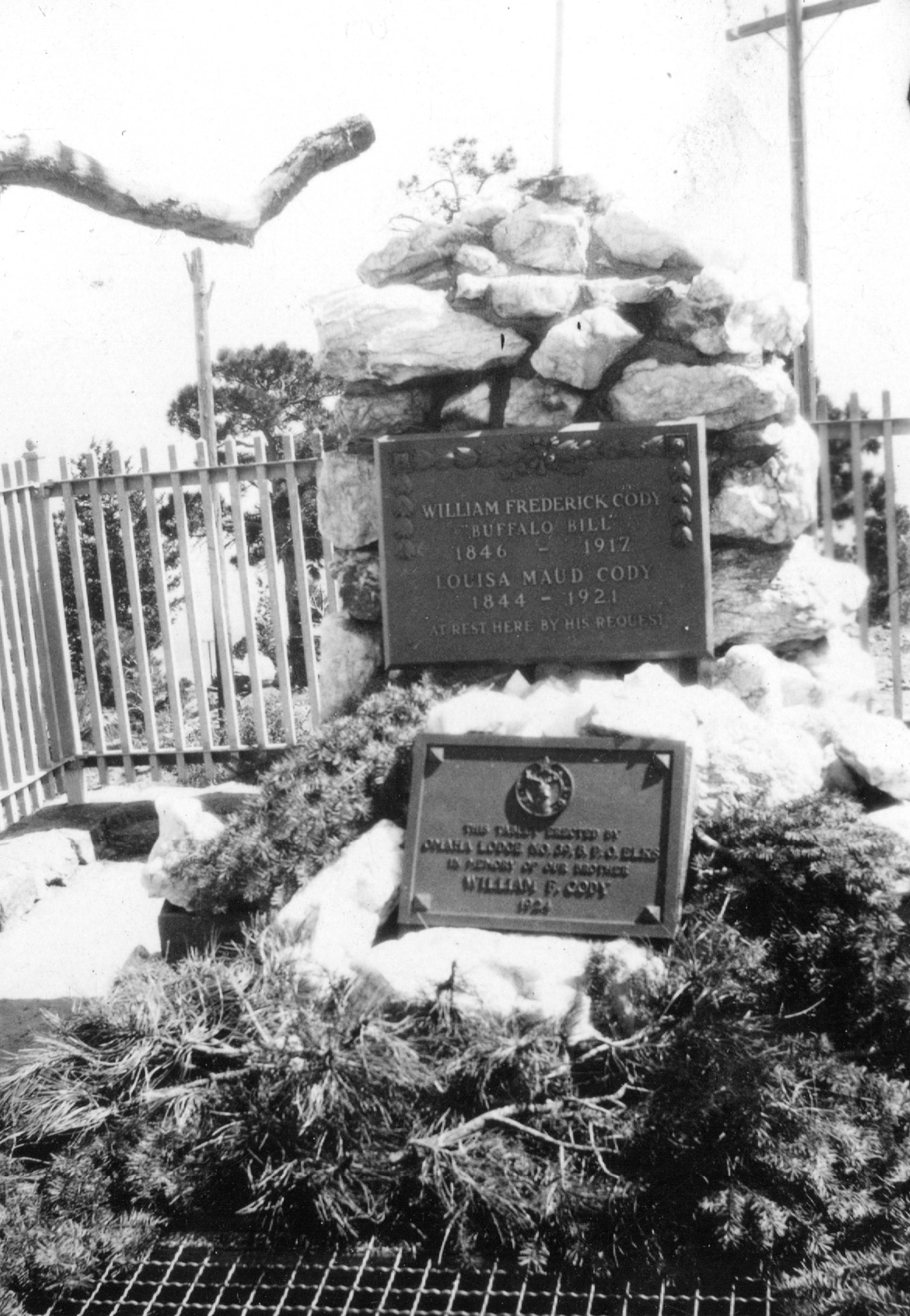 Buffalo Bill Cody's grave in 1927.